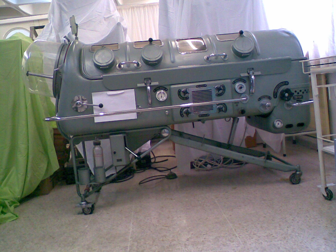 Steel lung (mid 20th Century, Basque Museum of the History of Medicine and Science)